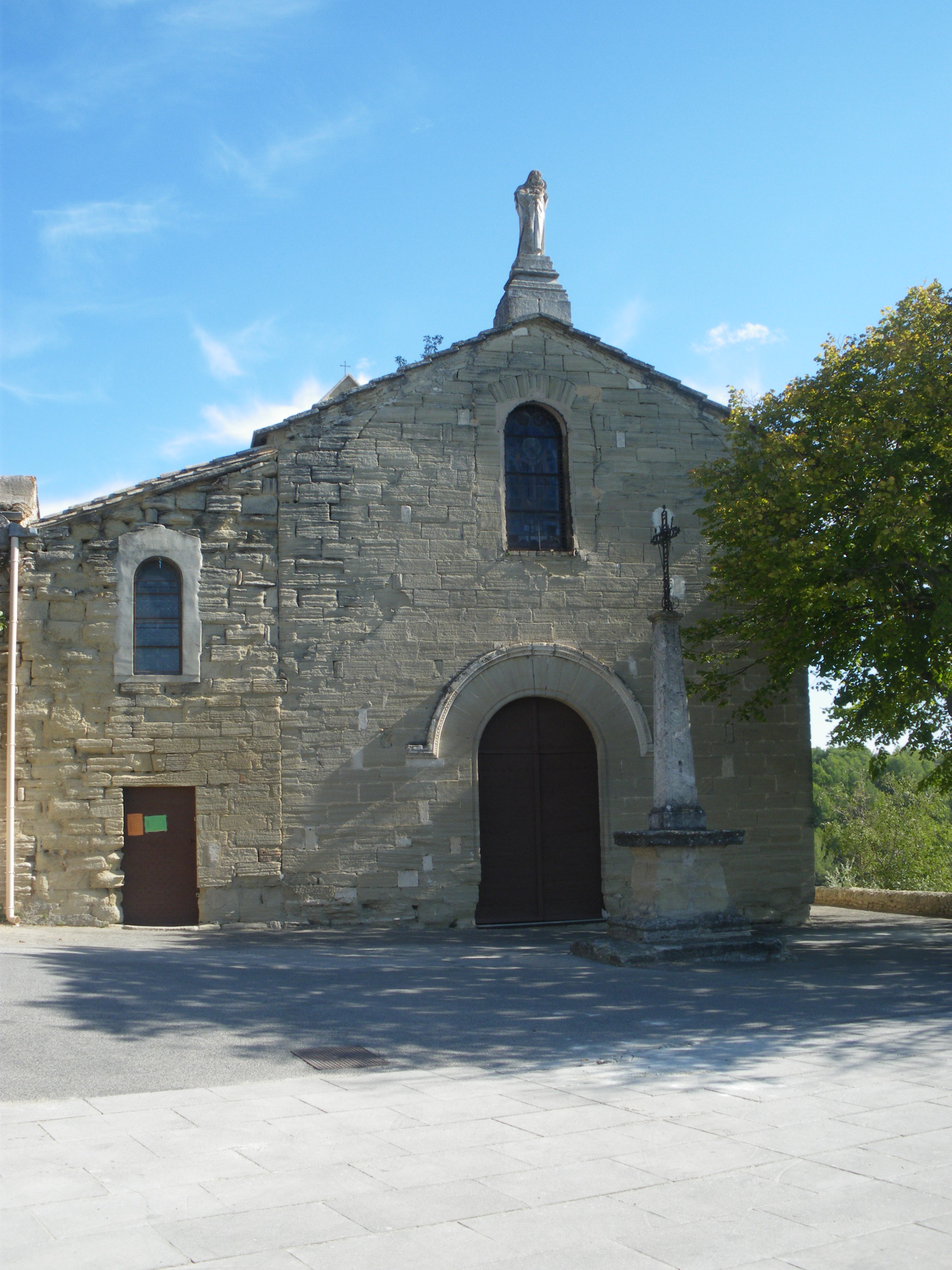 Church of Saumane, Vaucluse, France